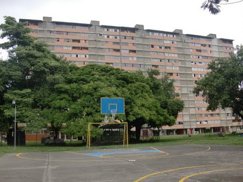 Republic of Venezuela building, donated to help disaster victims in Cali